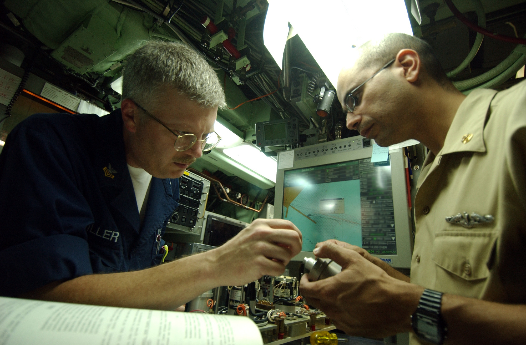 Manama, Bahrain (Oct. 25, 2005) - Navigation Electronics Technician 1st Class Jay Miller, left, and Chief Navigation Electronics Technician Erick Encarnacion work on an assembly piece for the Stern Plane Angle Indicator aboard the Los Angeles-class fast attack submarine USS Annapolis (SSN 760) while pierside in Manama, Bahrain. Annapolis is currently on a regularly scheduled deployment conducting maritime security operations (MSO). U.S. Navy photo by Photographer's Mate 2nd Class Brandon A. Teeples (RELEASED)